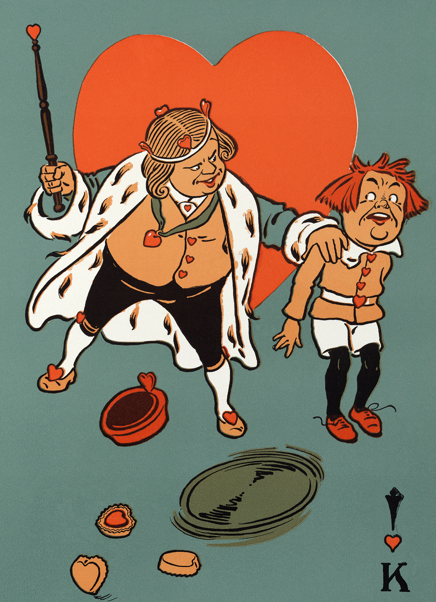 The Knave of Hearts, from a 1901 edition of Mother Goose.